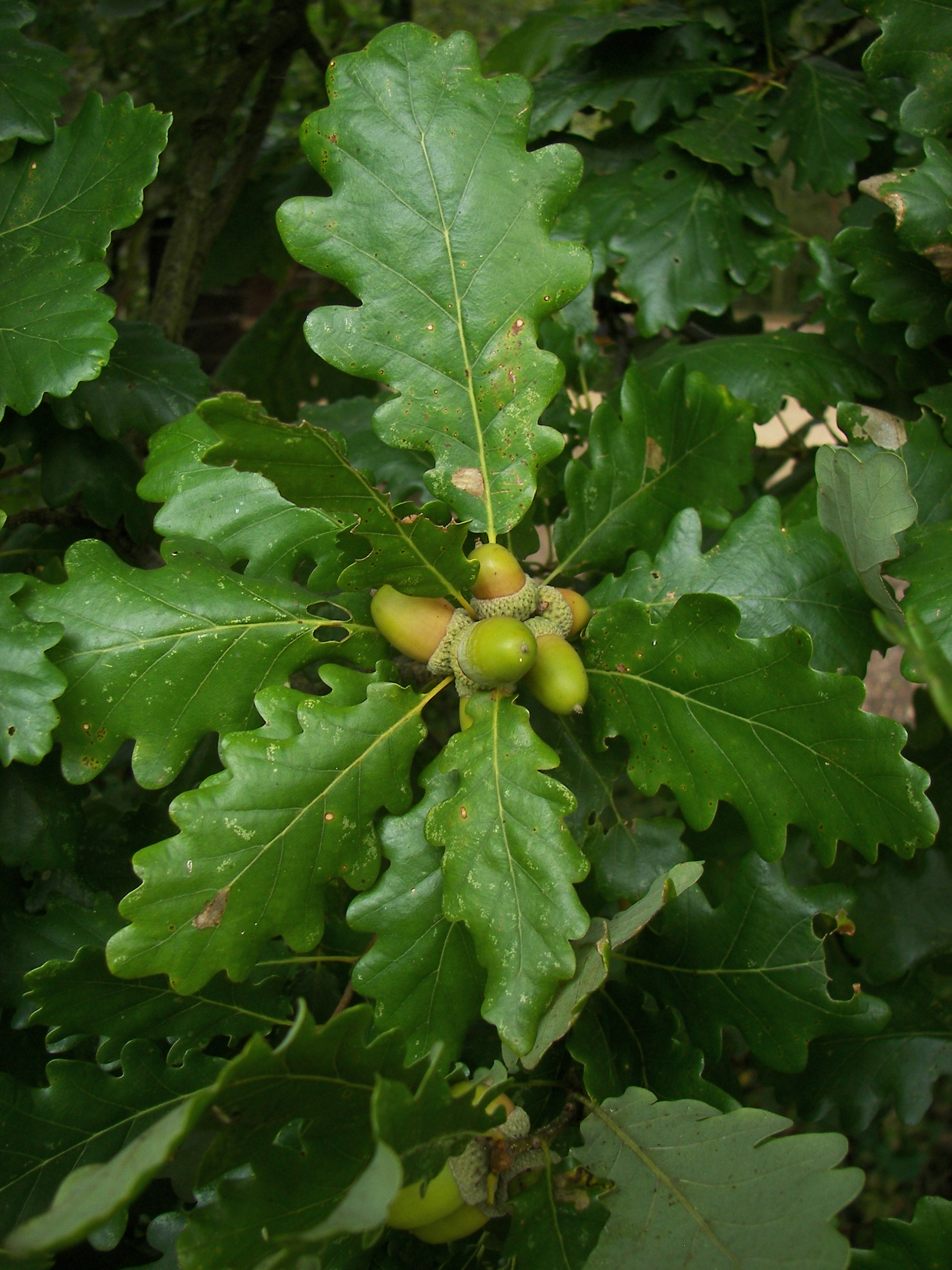 Sessile Oak (Quercus petraea) in Marburg, Hesse, Germany